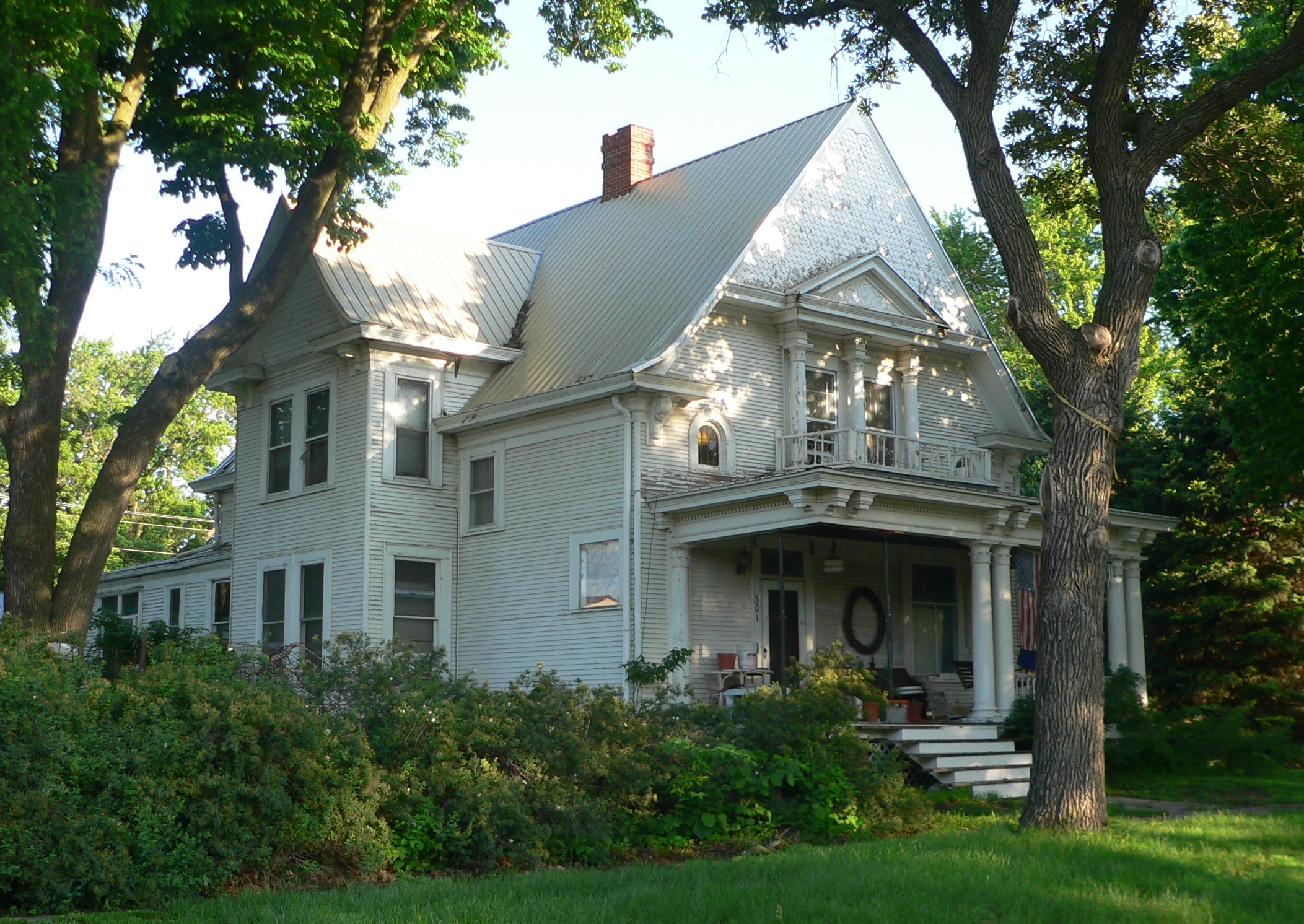 Colman house, located at 501 Lavelle Street (southwest corner of Hilton and Lavelle Streets) in Diller, Nebraska; seen from the southeast.